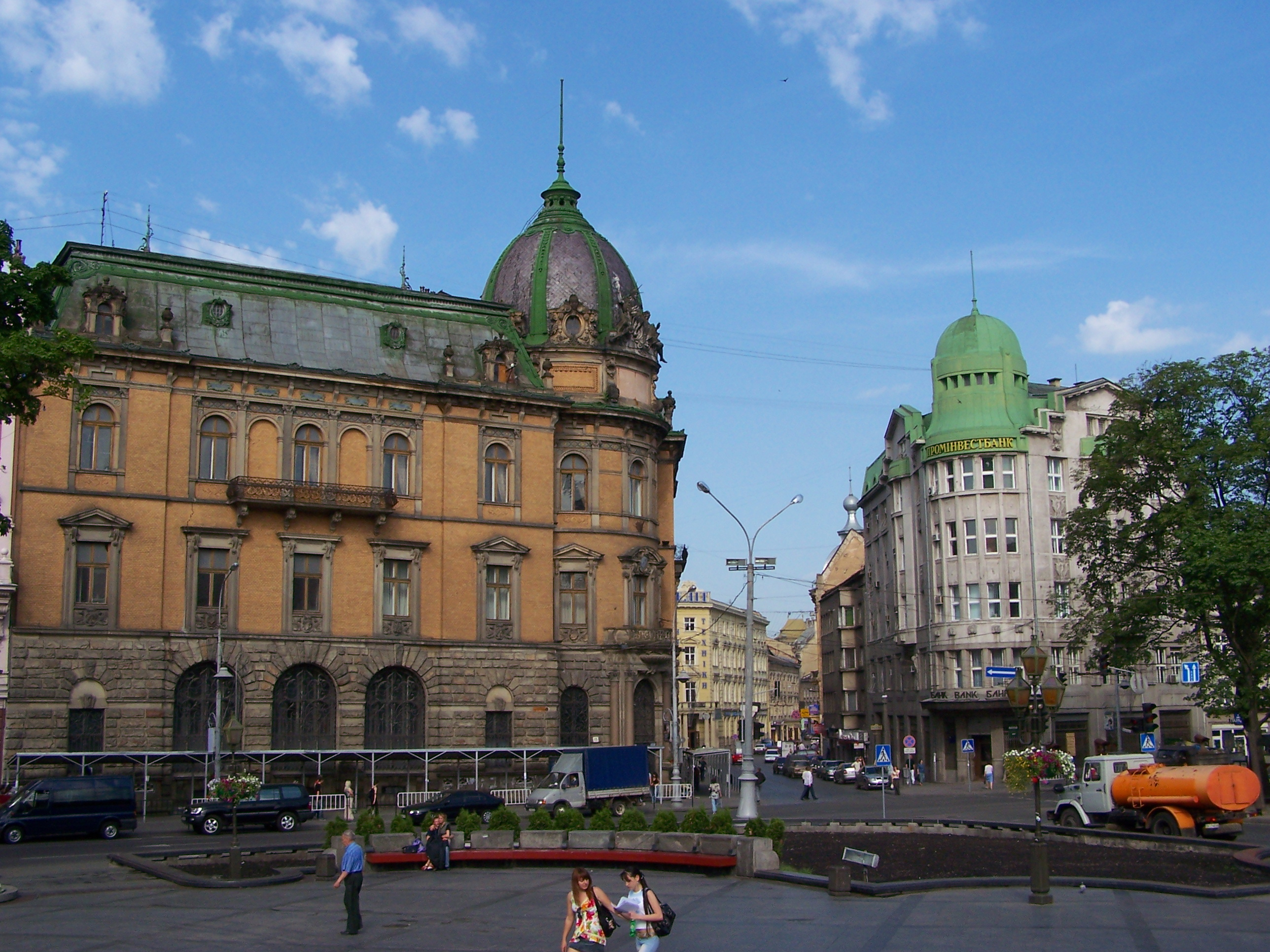 Buildings by Prospekt svobody (Freedom avenue) in Lviv (Ukraine), from the left the Galican Savings Bank (today hosting the ethnographic museum) and the Bohemian Bank (Prominvestbank).